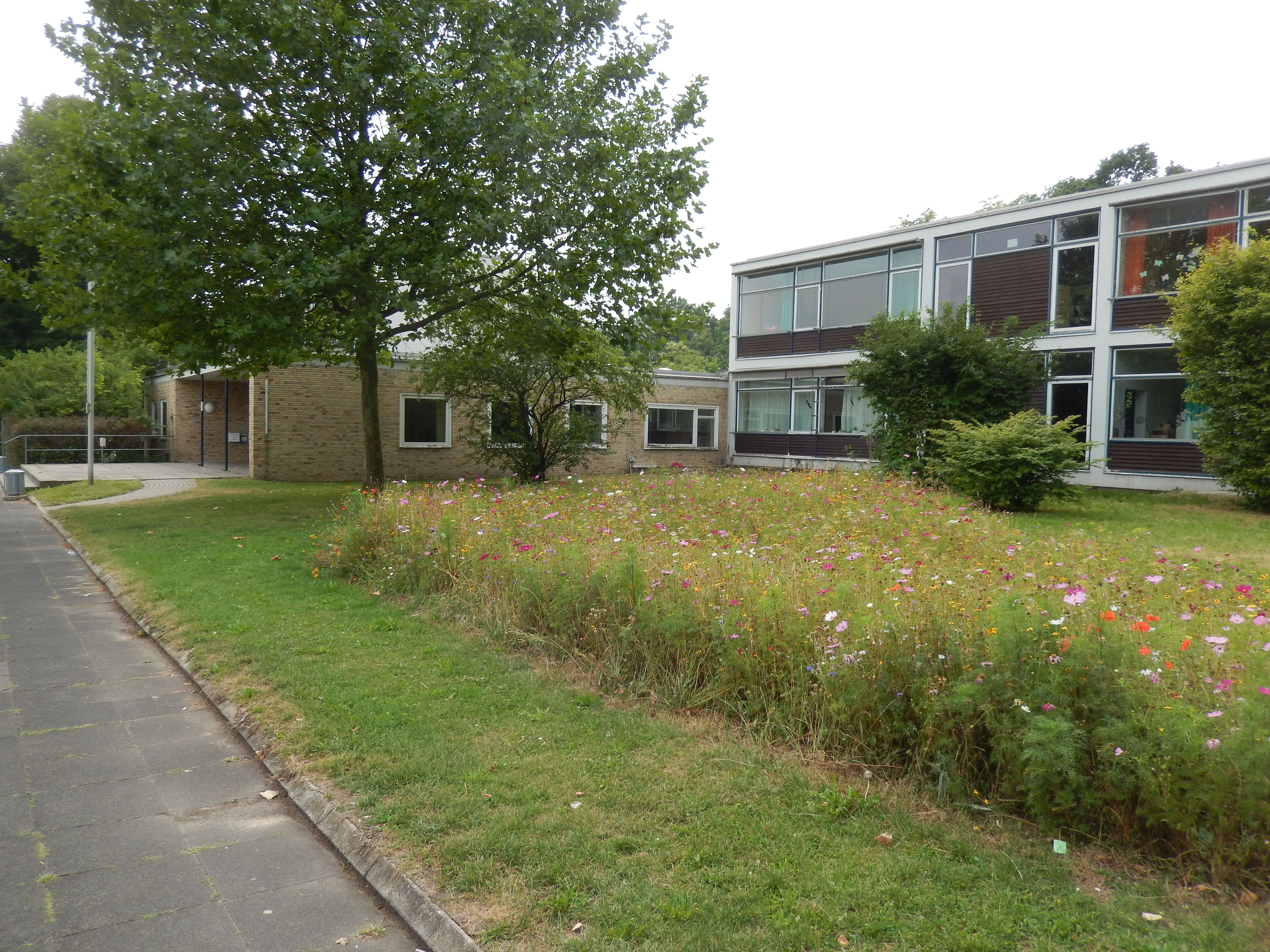 Wilhelm-Busch School in Hannover, Germany.